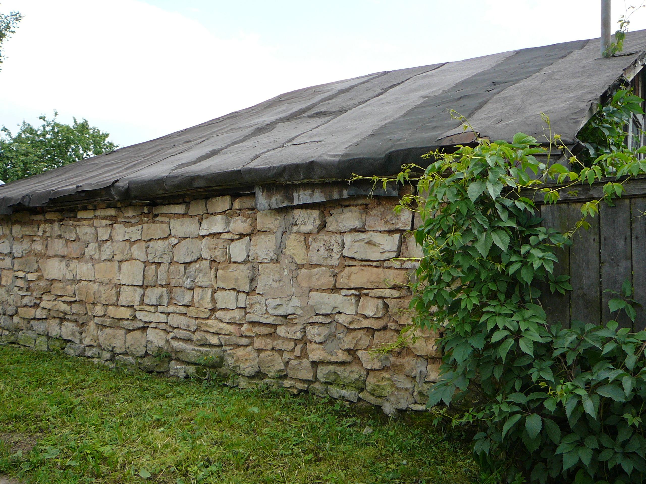 Podolsky District, Moscow Oblast, Russia